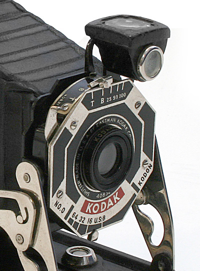 Detail of shutter of a Kodak six-twenty art deco camera, set to Bulb shuuter setting